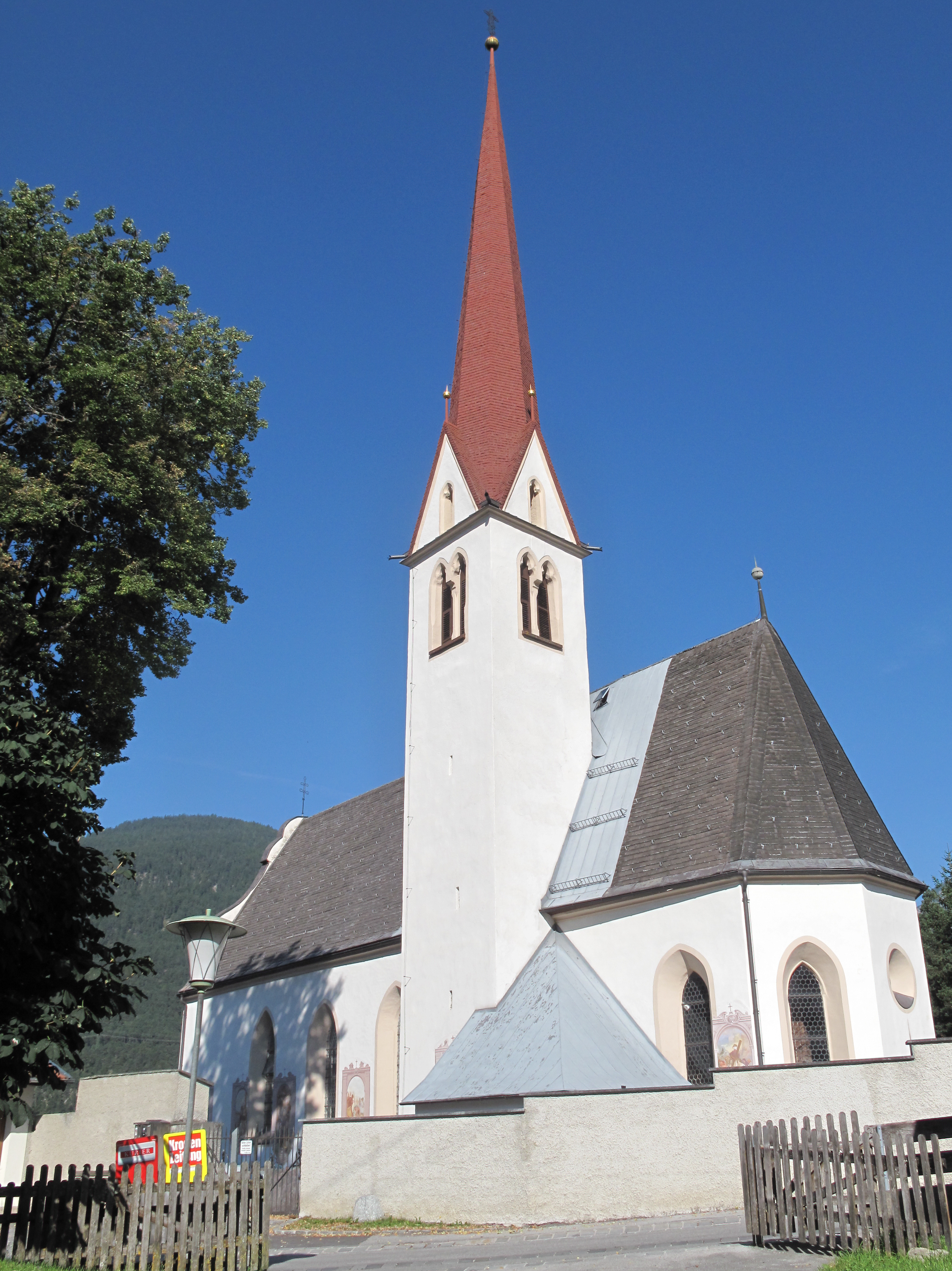 Dormitz, church: die Wallfahrtskirche